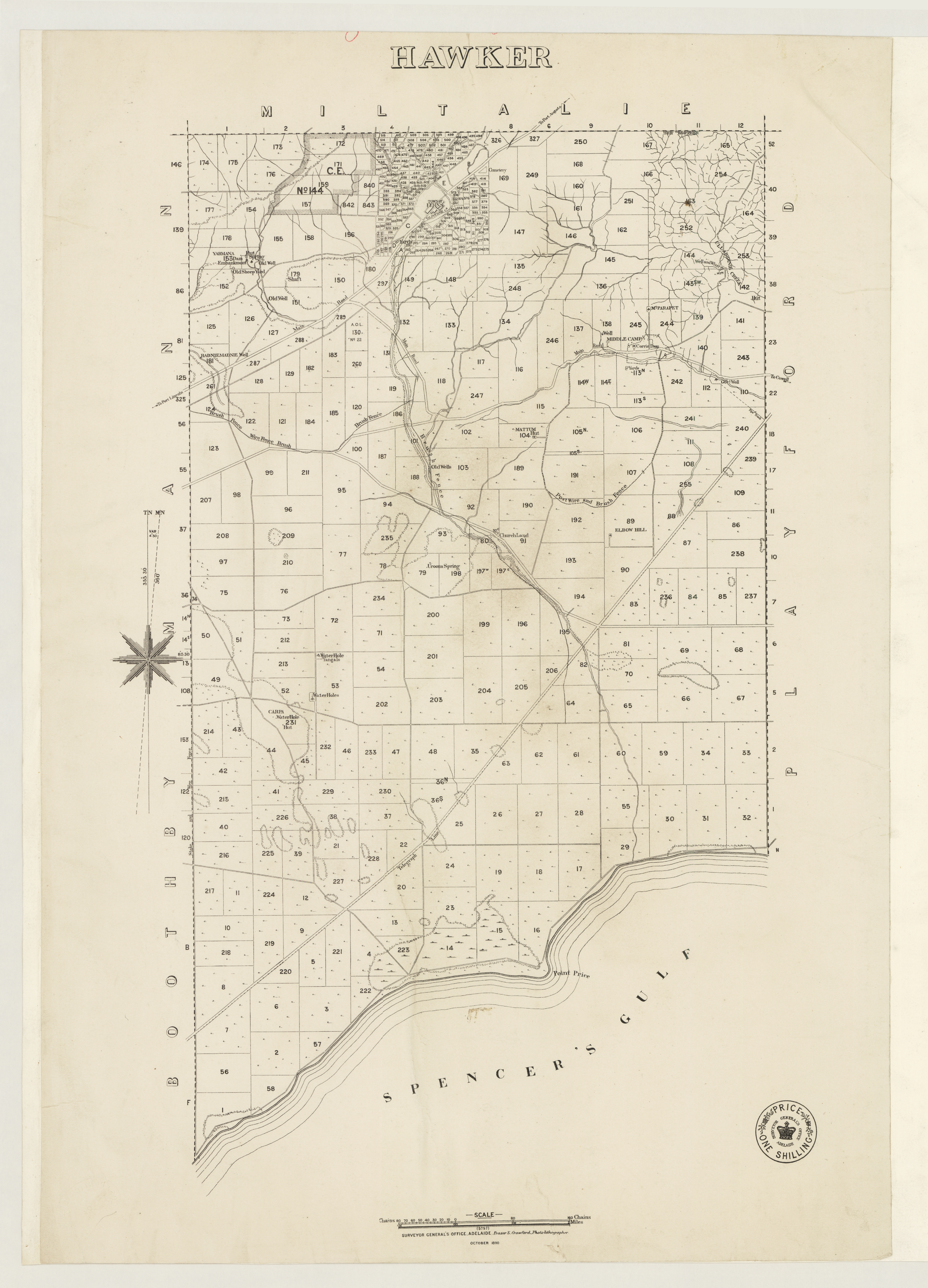 View additional information for this map Filename: map830bje63360_hawker1890_ds.jpg